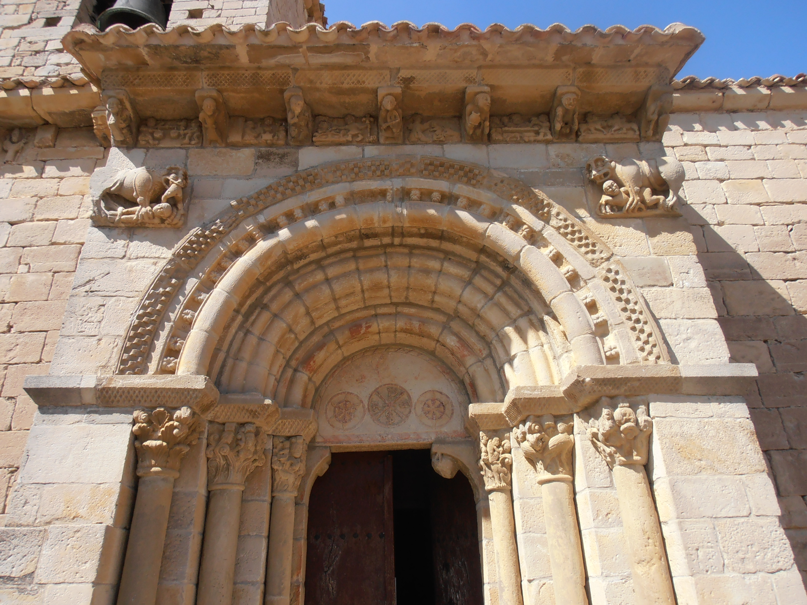 St. Martin Church - Artaiz